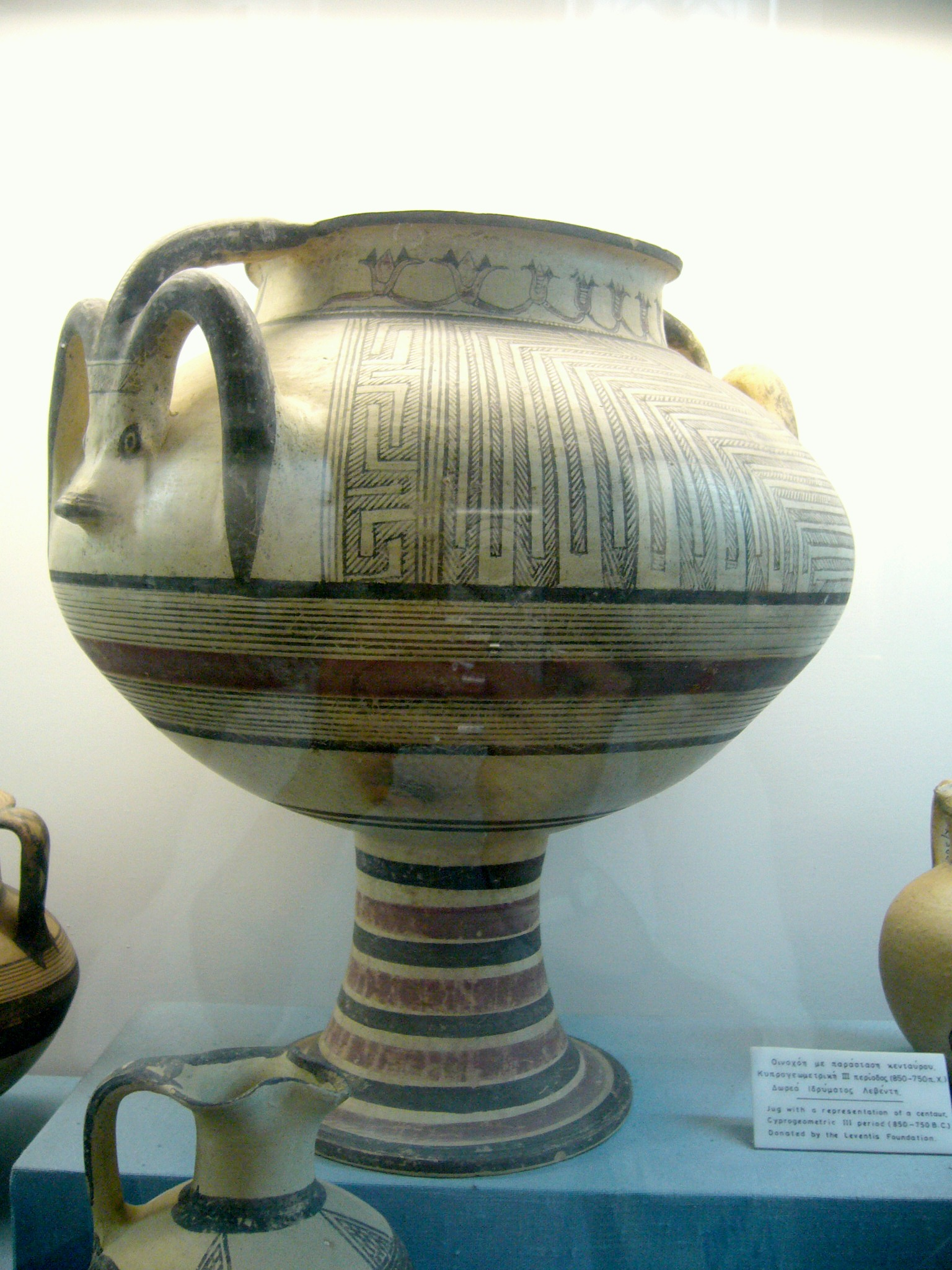 Jug from Cyprogeometric III period (850-750 B.C.) Donated by the Leventis Foundation. Archaeological Museum, Nicosia, Cyprus